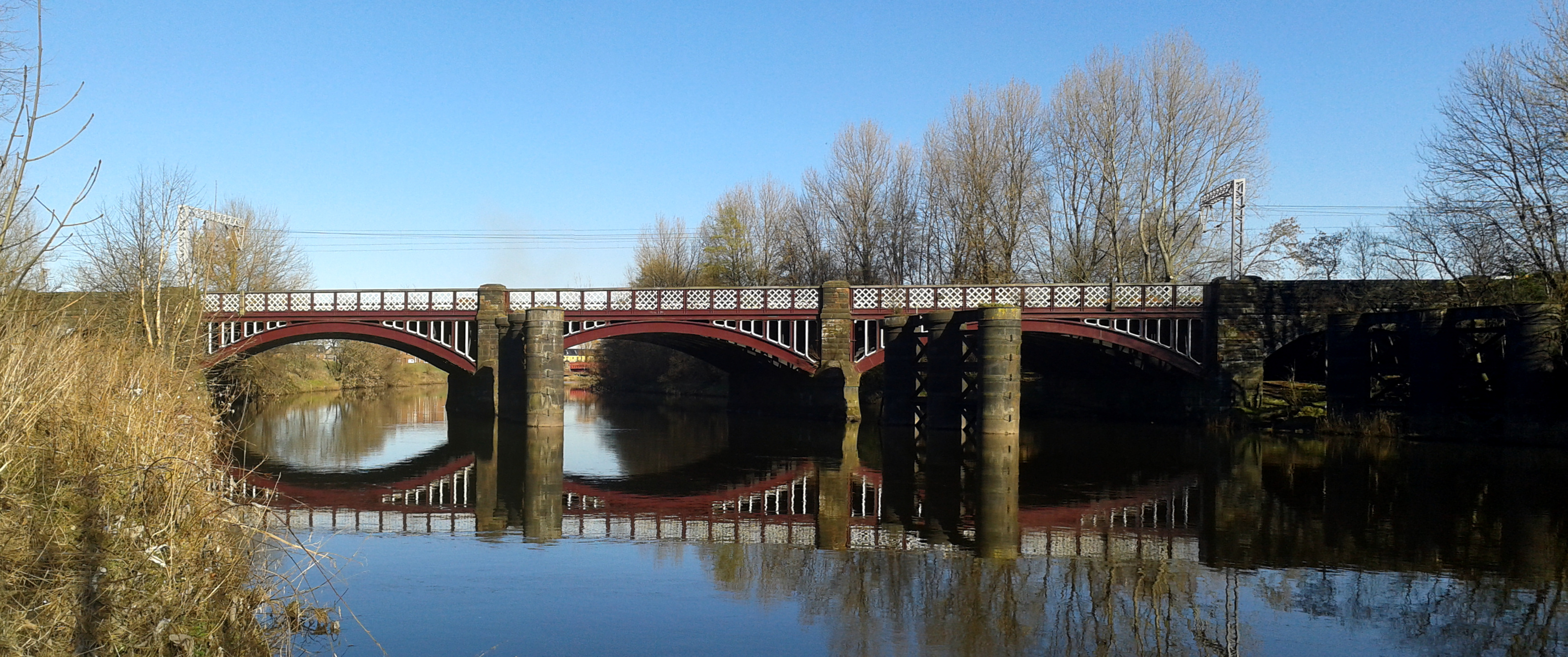 Dalmarnock Railway Bridge, Rutherglen, with the remaining piers of an earlier bridge in front.